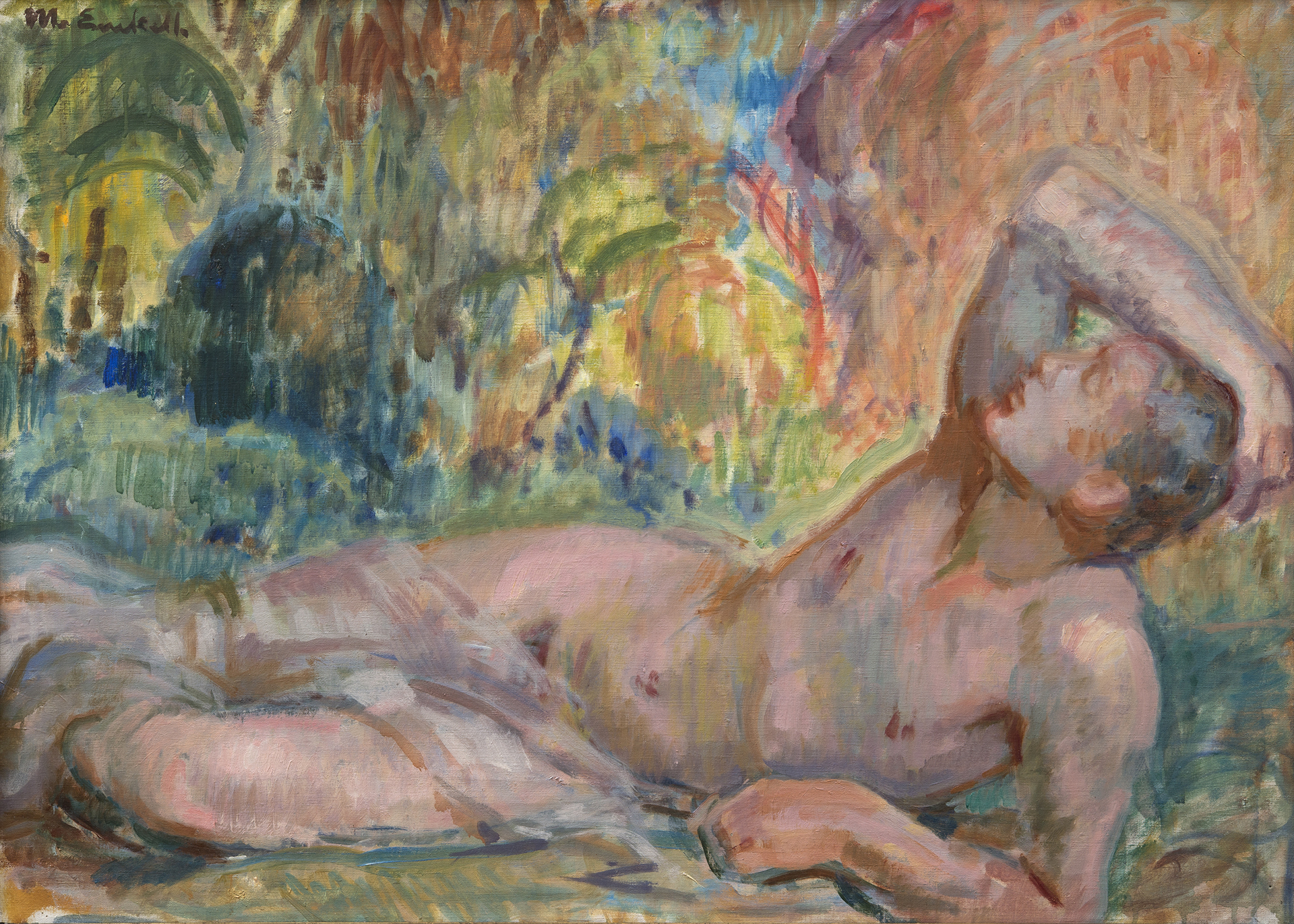 The dying Adonis